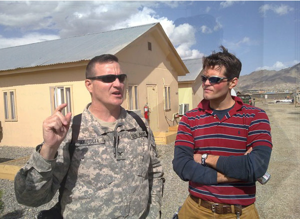 Mike Williams with General Agoglia in Afghanistan